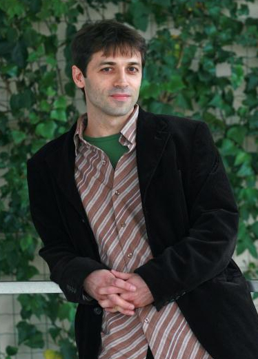 Luis Prieto at the opening reception of "Ho Voglia di Te"